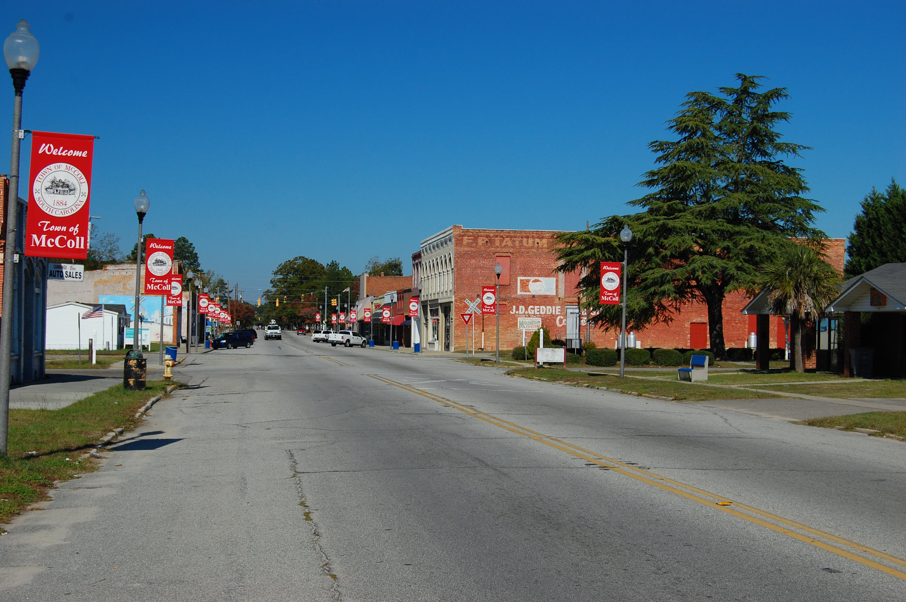 View of downtown McColl, South Carolina